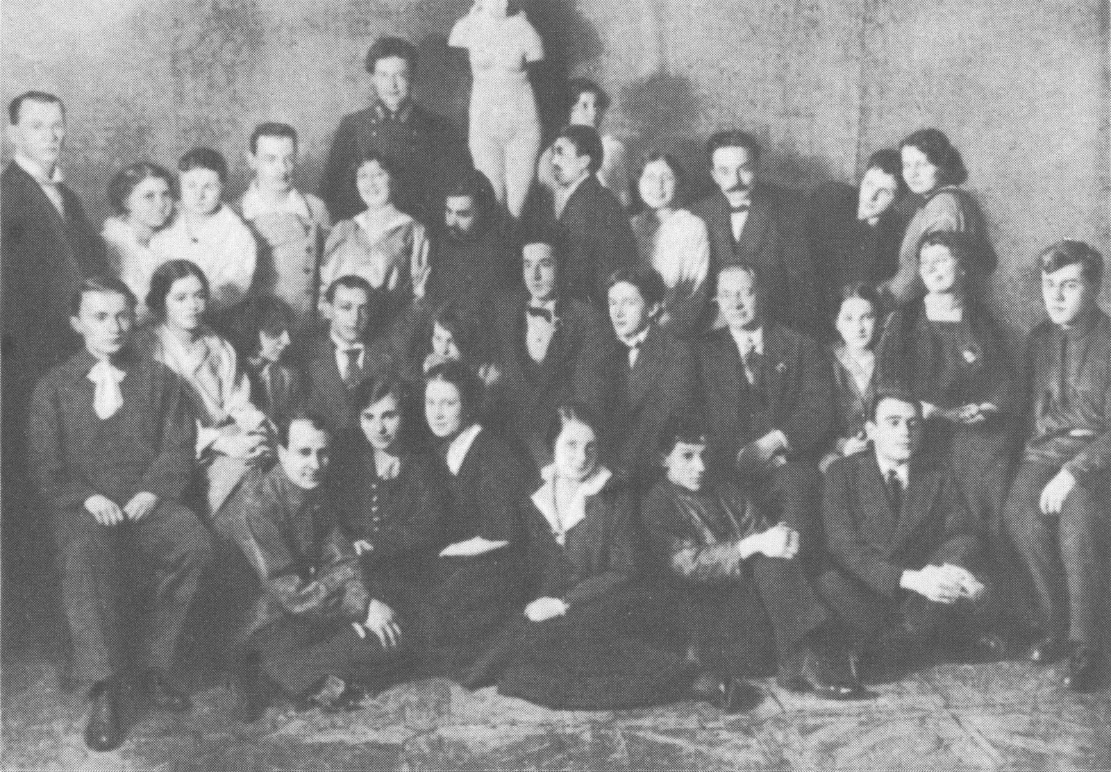 Student's_studio_of MHAT